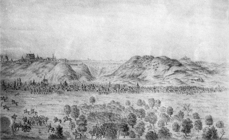 Abraham van westerfeld, Obolon, Podil, 1651